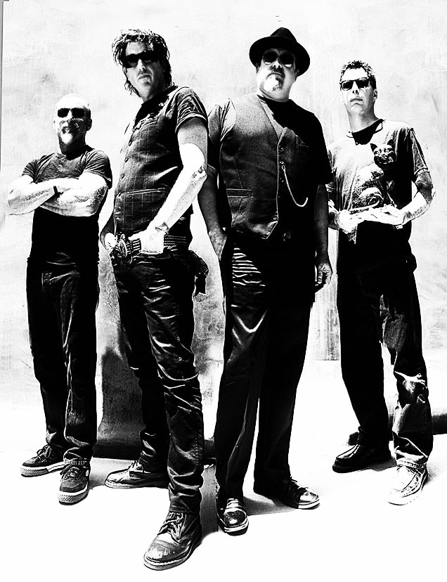 Symbol Six 2014